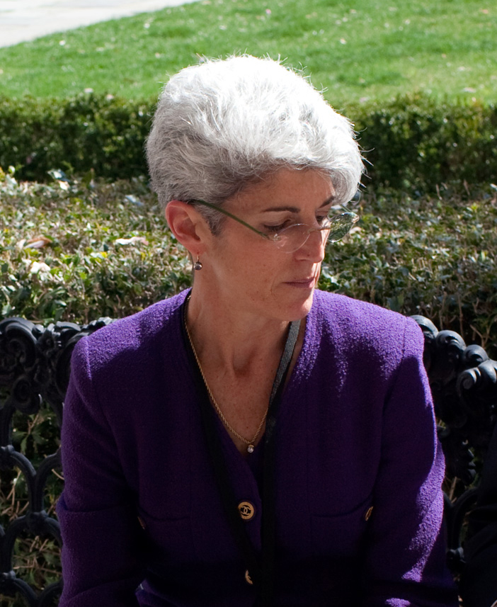 President Barack Obama and Staff Secretary Lisa Brown on the Colonnade prior to H.R. 146, the Omnibus Public Lands Management Act Bill signing ceremony. Official White House Photo by Pete Souza